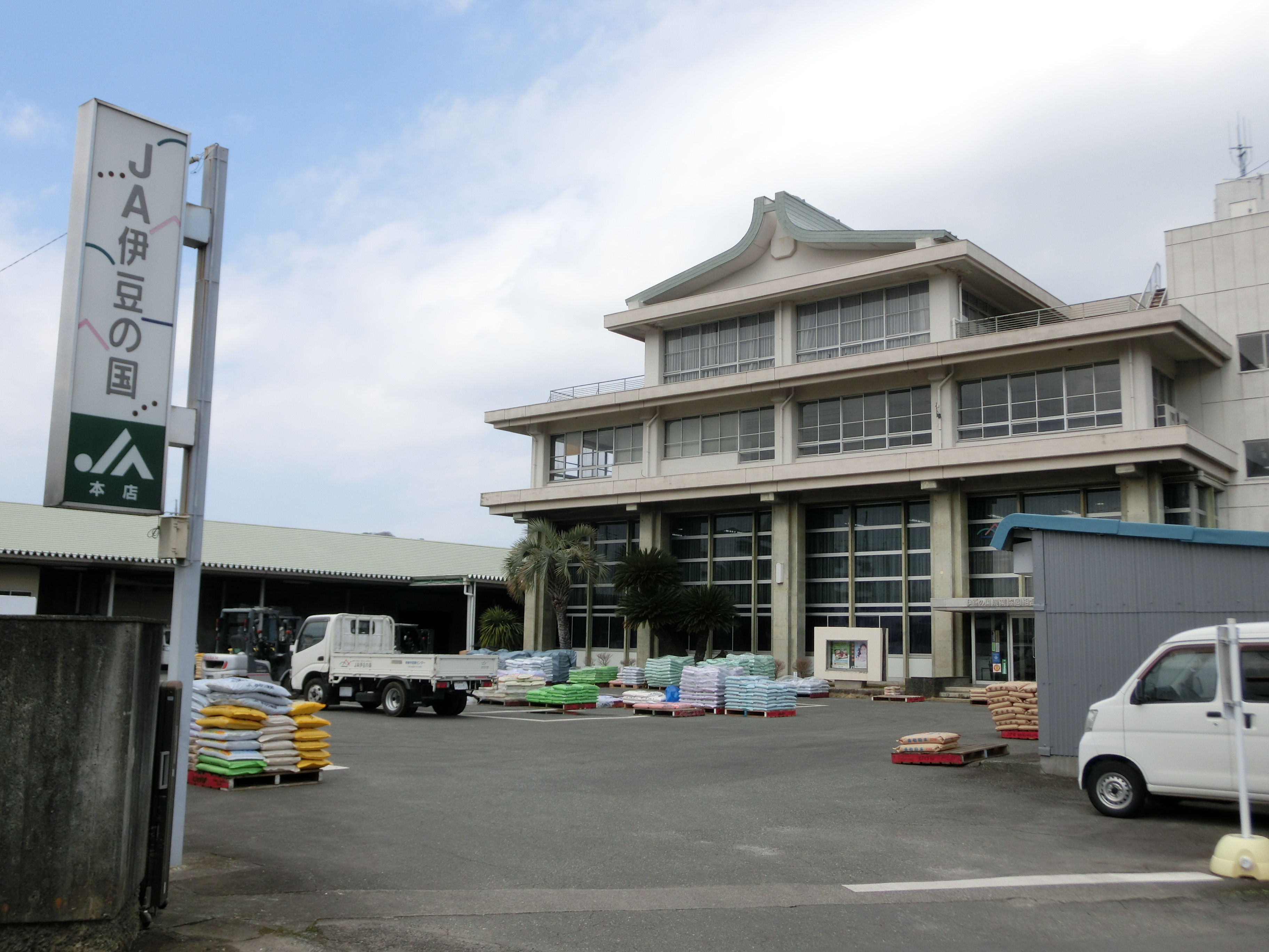 JA Izunokuni Headquarters